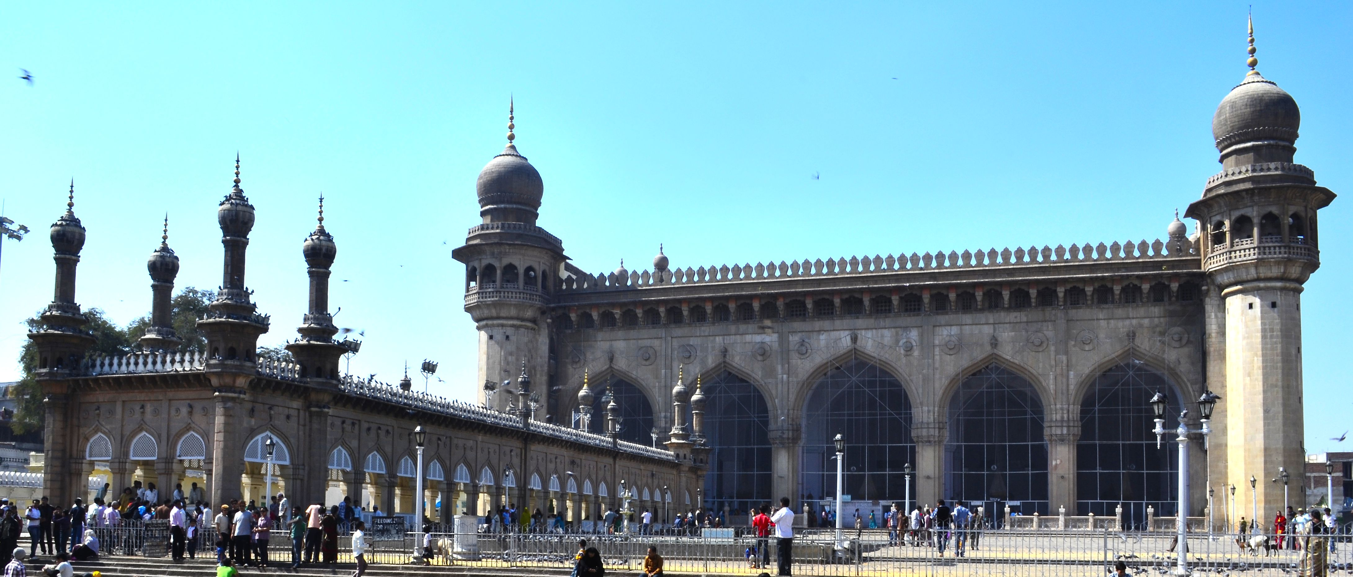 Mecca Masjid, so named because the bricks were brought from Mecca to build the central arch. The Qutb Shahis never finished the building of the mosque, which was completed by Aurangzeb in 1694.